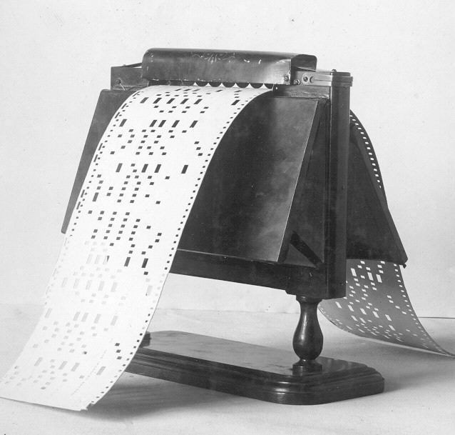 American; "Autophone" Organette; Aerophone-Free Reed